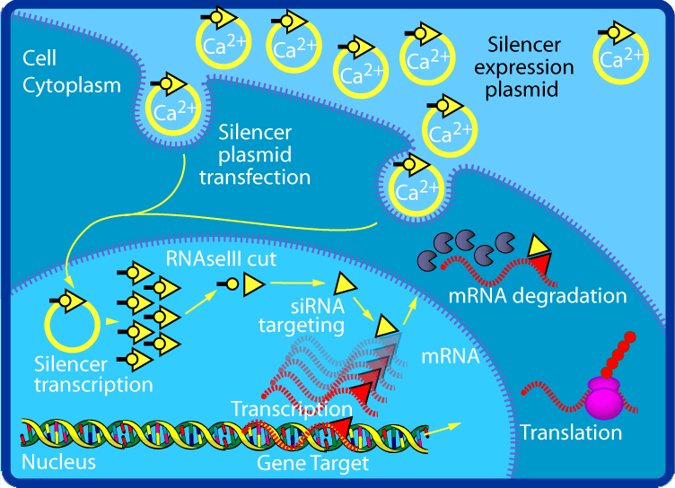 Design & Production: Kosi Gramatikoff User:Kosigrim; Using the method of siRNA in cell culture.